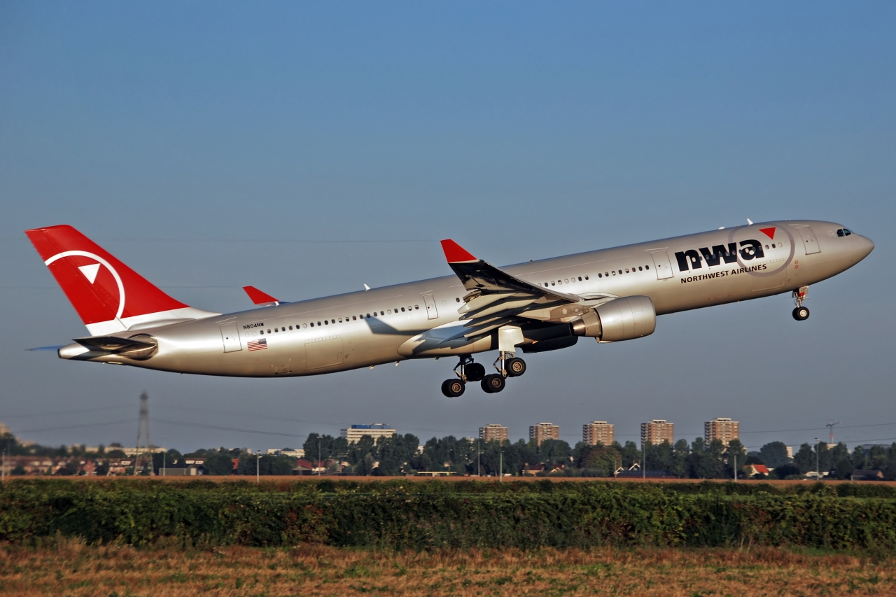 Airbus A330-323X Amsterdam schiphol [AMS / EHAM] 14-09-2008